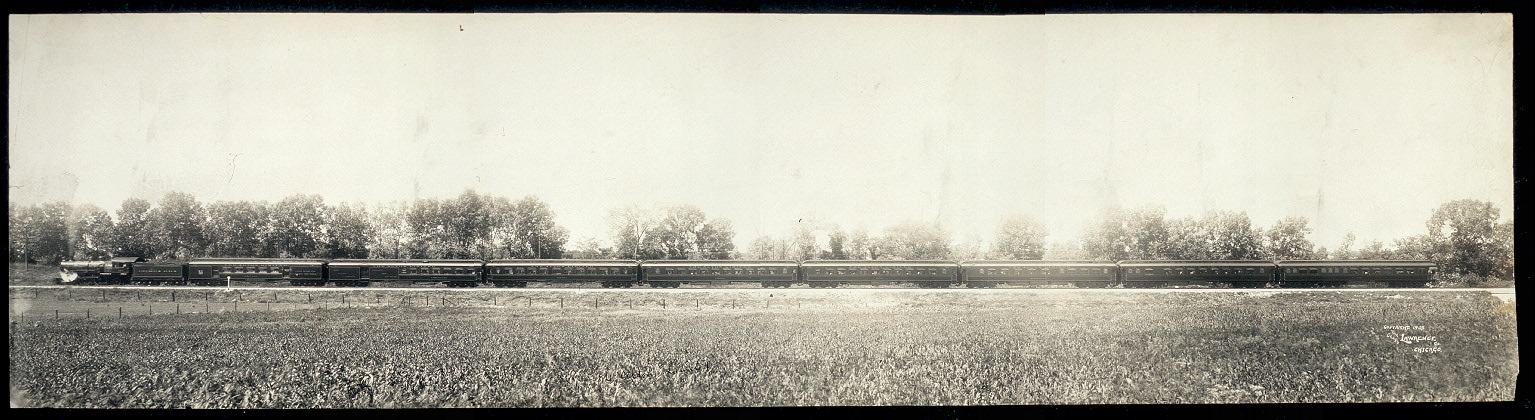 1900 Photograph Chicago & Alton Railway's Alton Limited locomotive